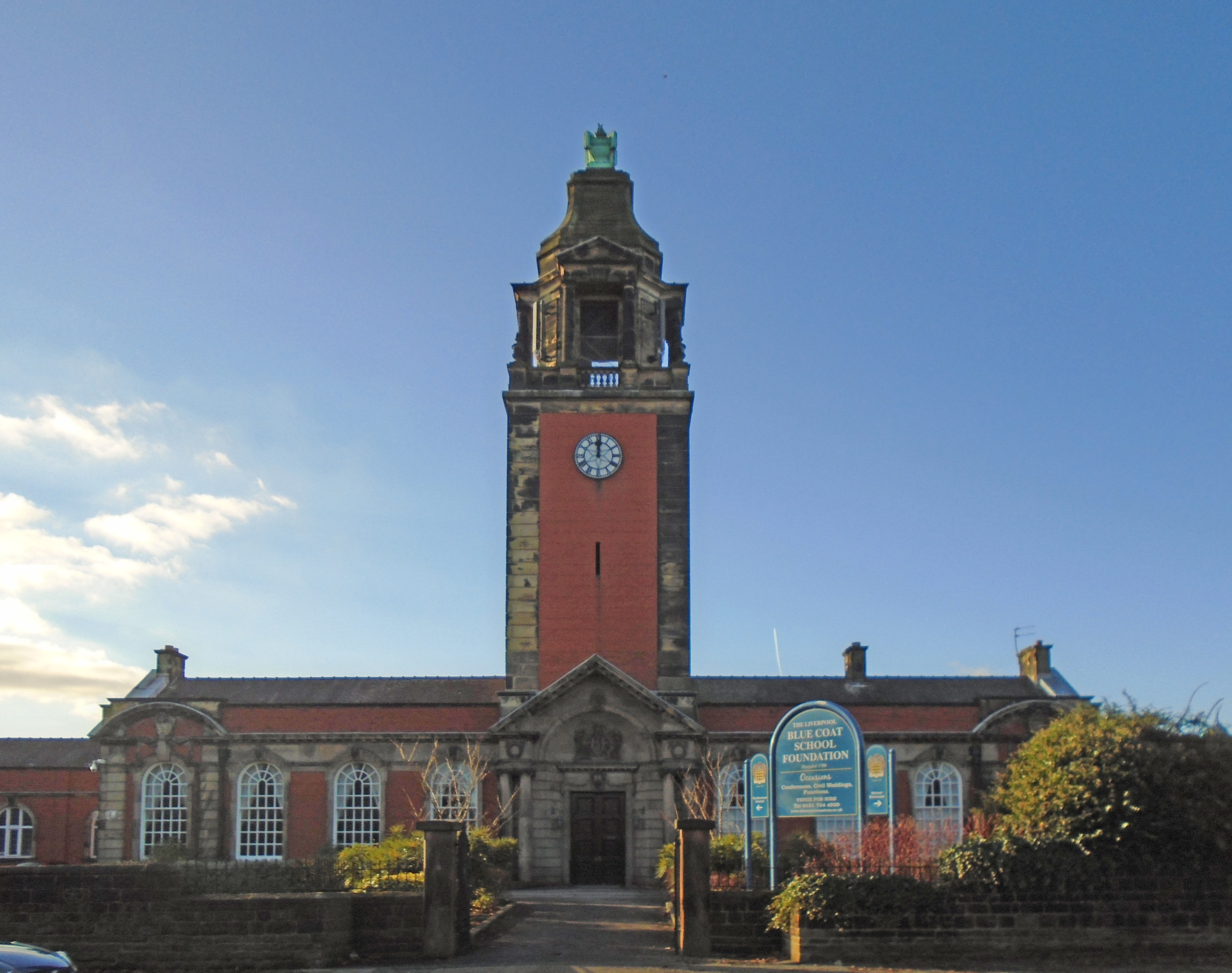 Former main entrance and clock tower, now access to Blue Coat Occasions.